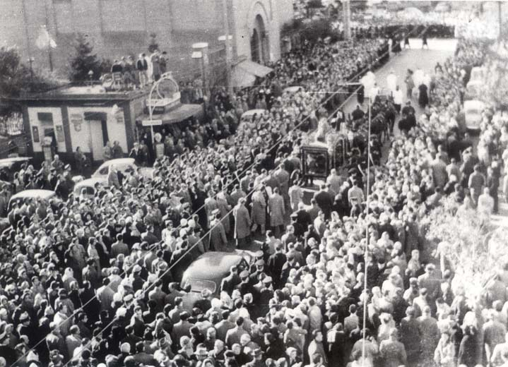 Beniamino Gigli funeral proceccion 1957 Rome